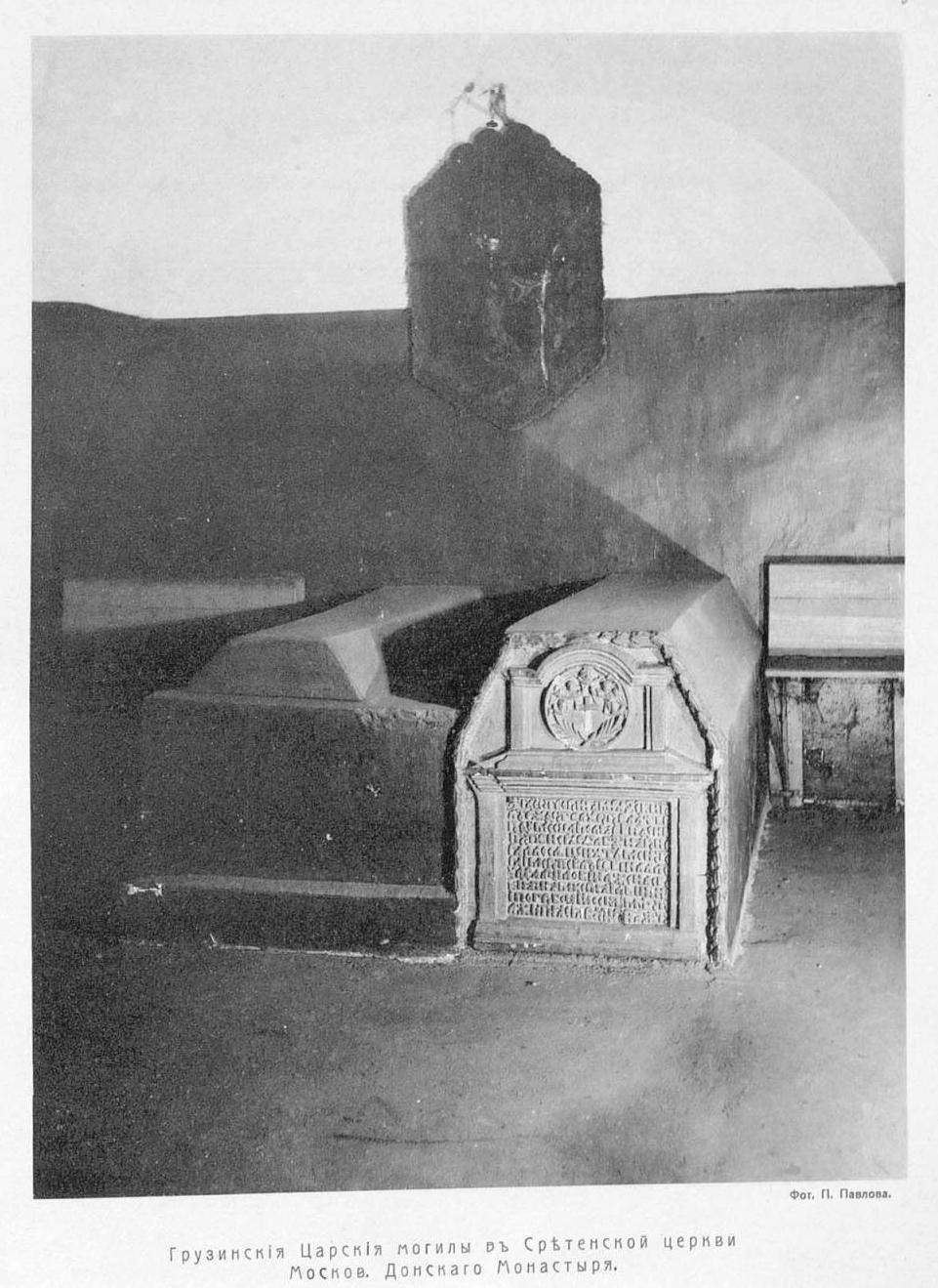 Georgian necropolis in Donskoy Monastery. An illustration from Letopis' Gruzii, edited by B. Esadze, 1913.